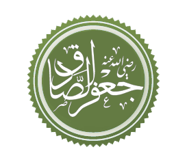 Jafar Al-Sadik's name in arabic font